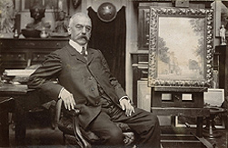 Portrait of Eugène Grasset (1845-1917)